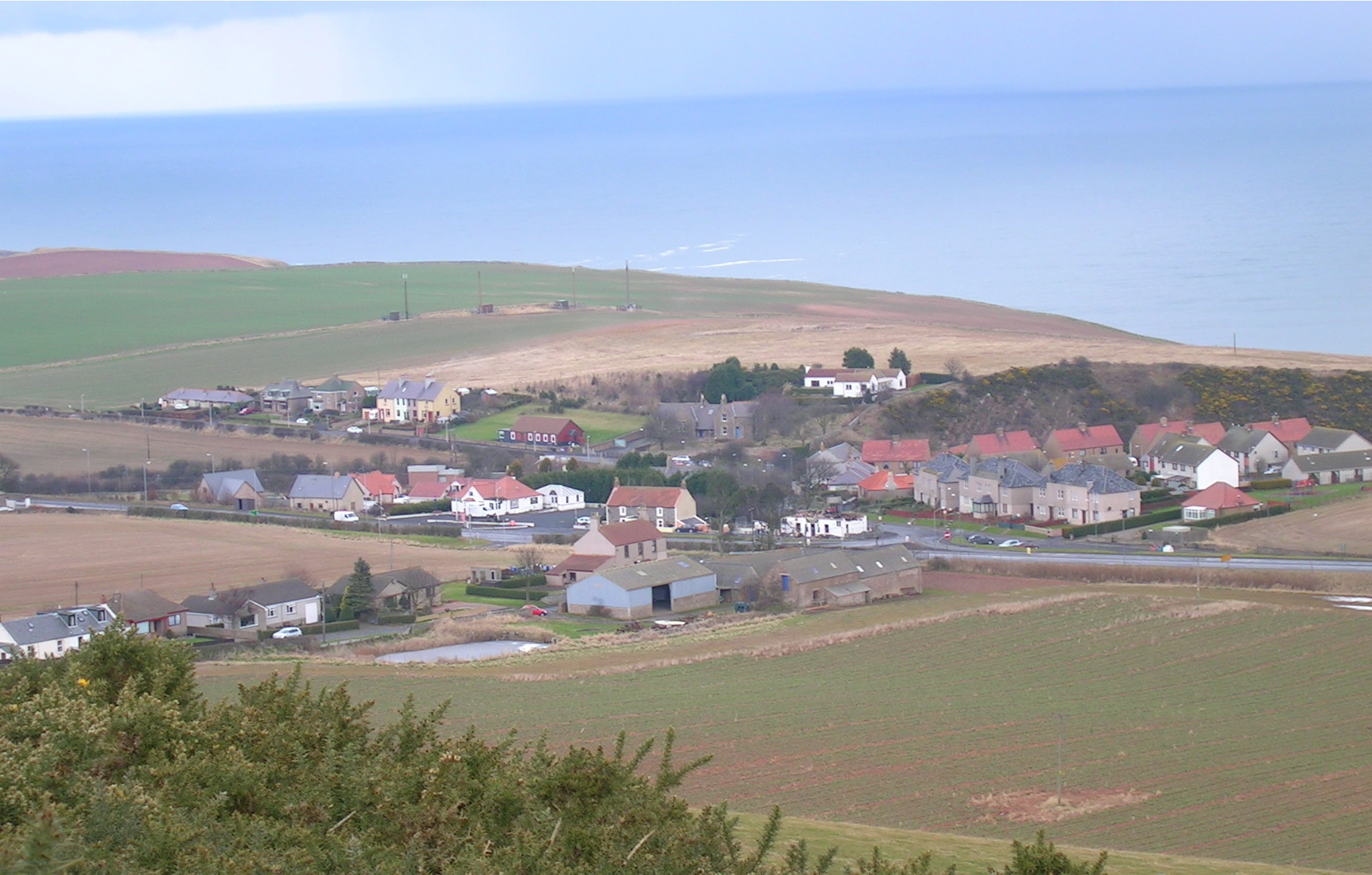 2006. View of Upper Burnmouth from south. The A1 can be seen dissecting the village from East Flemington at the south. The road through the village leads to Eyemouth, and a turn off in the middle of the upper part of the village leads to lower Burnmouth.